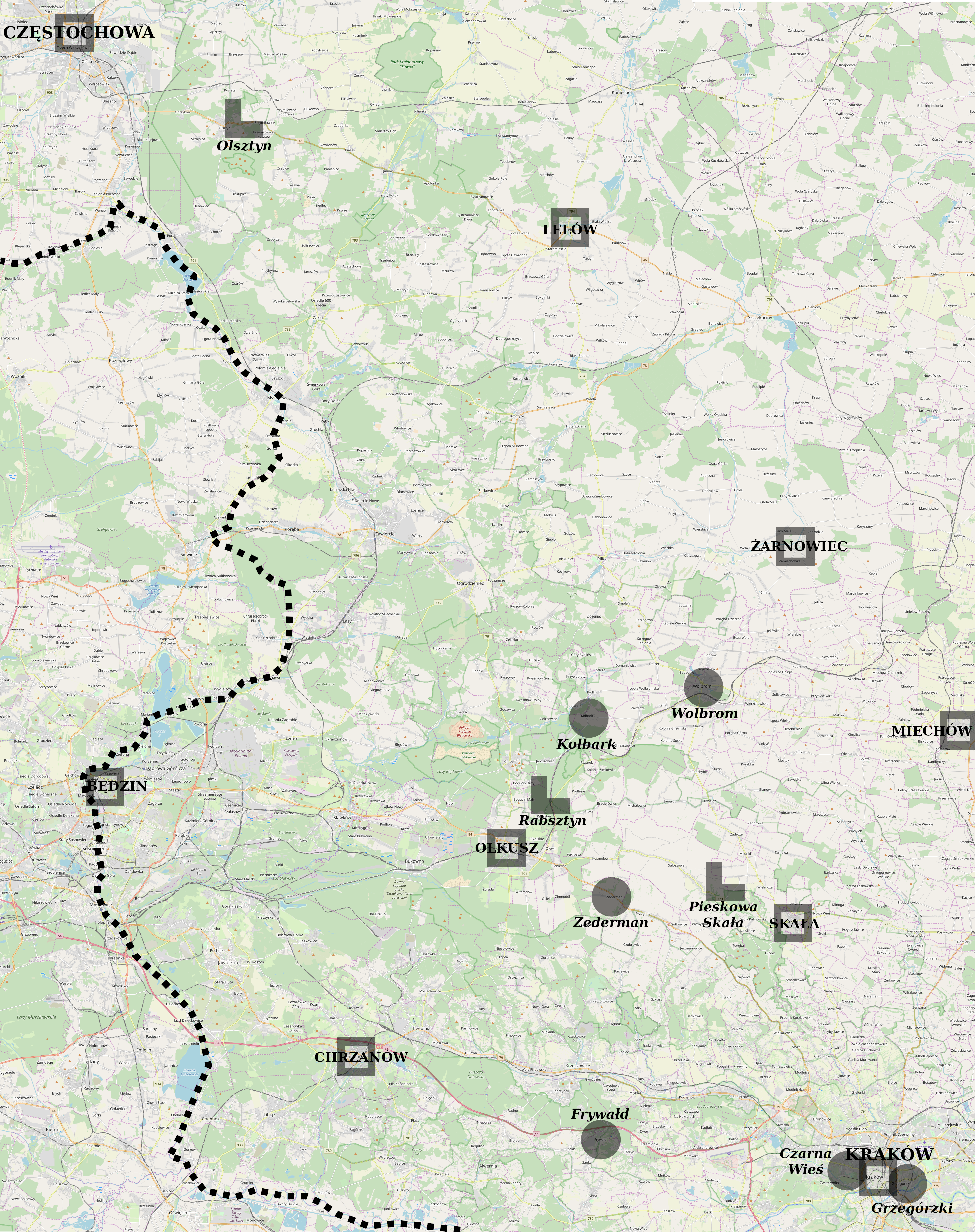 Some of name places with names of medieval German origin between Kraków and Częstochowa; black dotted line - border CZ-PL (CZ including the duchy of Siewierz). grey circles - villages; grey empty squares - other cities; grey angles - castles